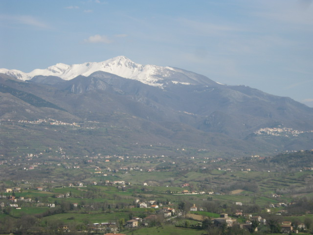 Meta mountains from Alvito, Italy.